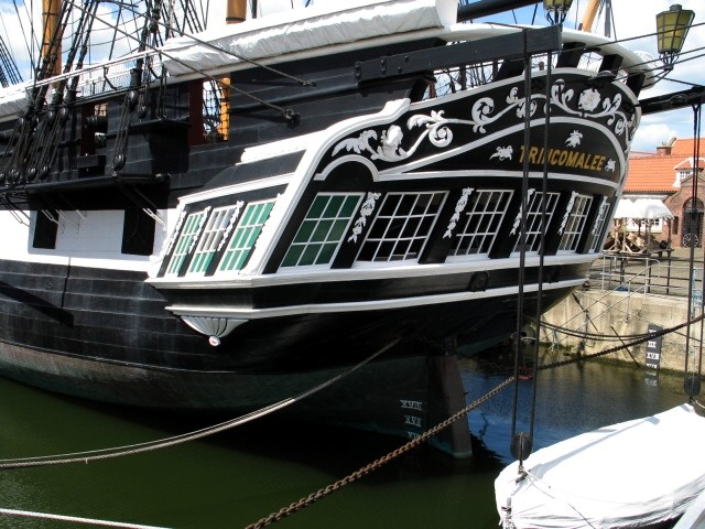 H.M.S. Trincomalee: Hartlepool Maritime Experience